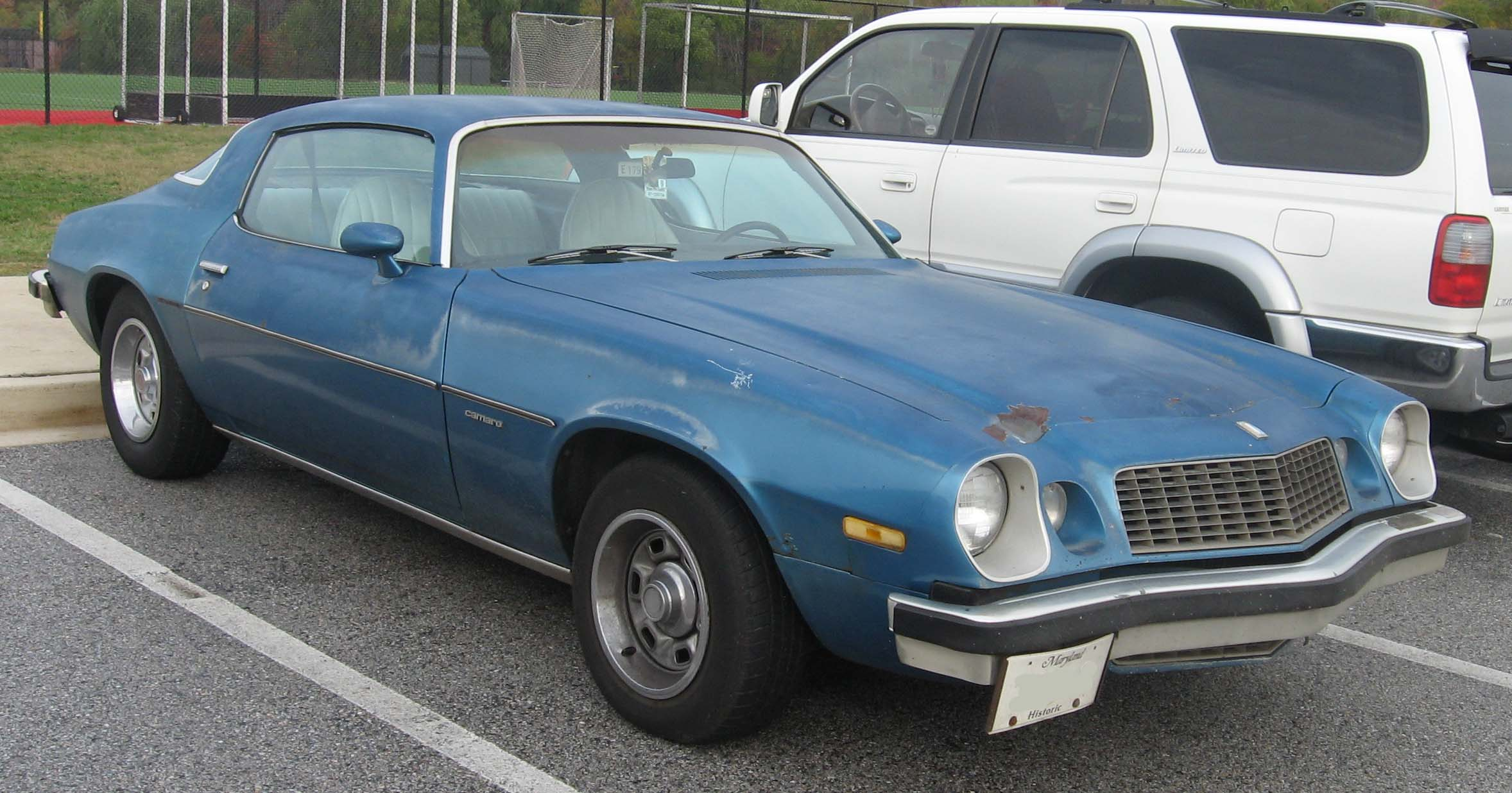 1975-1977 Chevrolet Camaro photographed in College Park, Maryland, USA.